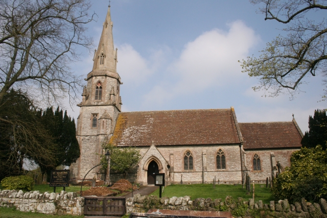 St Martin's Church, Zeals, Wiltshire, England. Designed by Messers George Gilbert Scott (1811 - 1878 of London) and William Bonython Moffatt (1812 - 1887 of London), and built on land donated by the Duke of Somerset, the Church of St. Martin was consecrated in the parish of Mere on 14 October 1846. It became an ecclestial parish on 27 June 1848. The spire was donated in 1876 by local benefactor Julia Chafyn Grove. [1] Location: grid reference ST780317